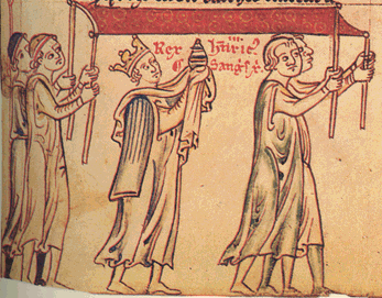 Henry III of England. Original at Corpus MS 16, folio 215r. See Nicholas Vincent, "The Holy Blood", for more information